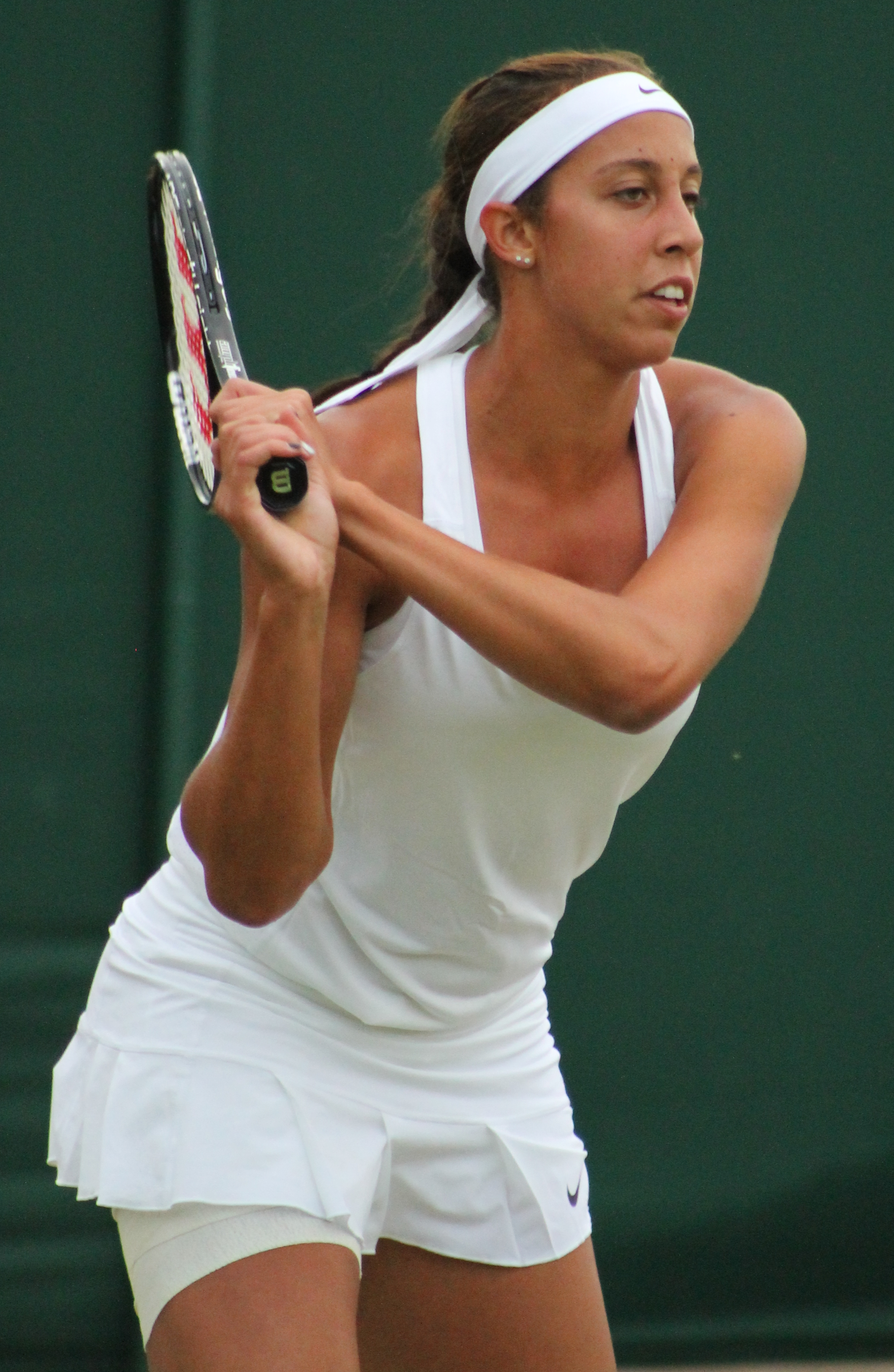 Keys WM14 (19)